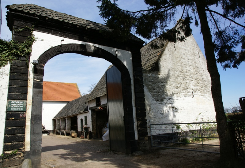 National monument no. 27933 - Van Akenweg 84-86, Maastricht, The Netherlands.